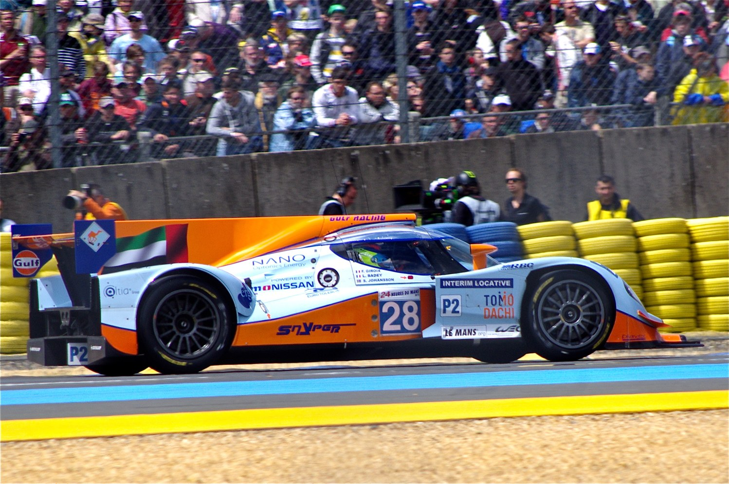 Gulf Racing Middle East's Lola B12/80 Nissan Driven by Fabien Giroix, Stefan Johansson and Ludovic Badey at Le Mans 2012.